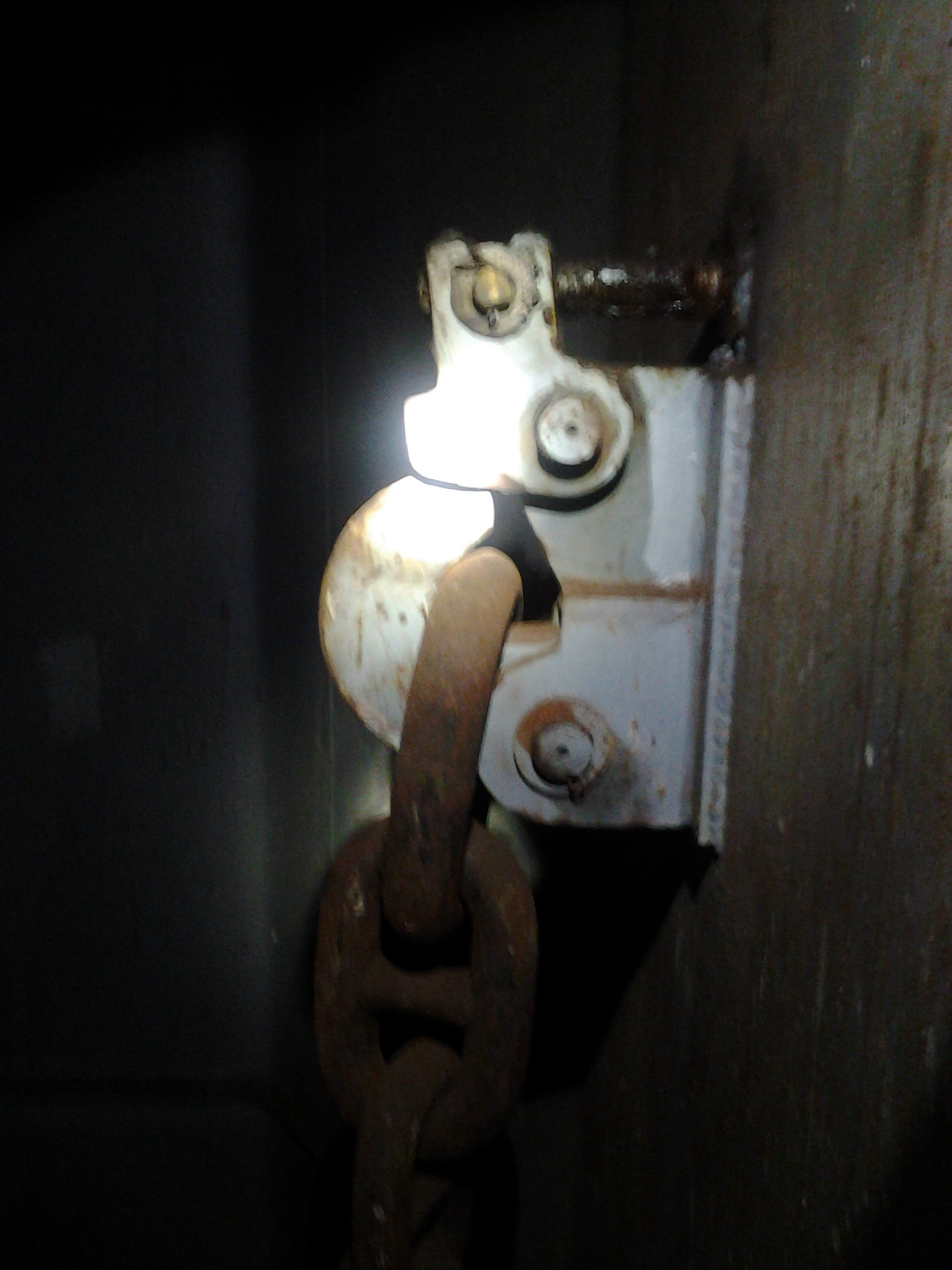 Ship's anchor chain secured in chain locker.